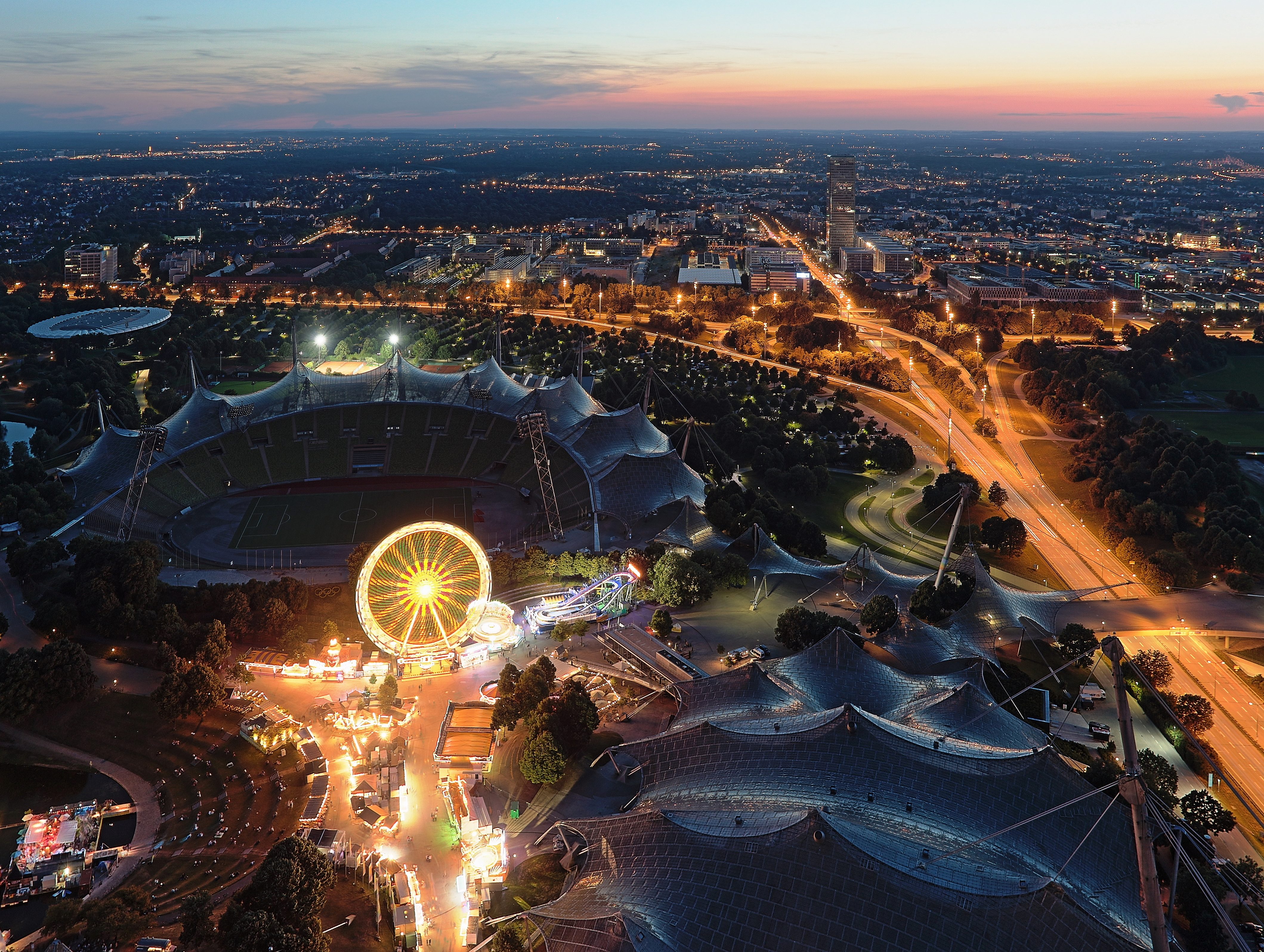 Olympiastadion, Munich, at dusk